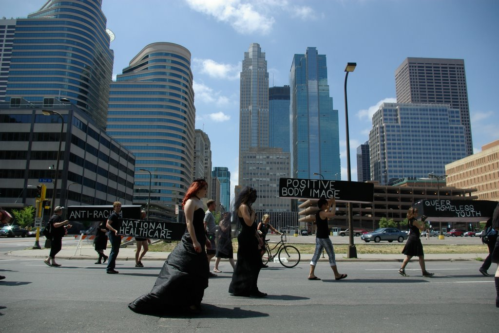 Revolting Queers in Minneapolis Pride.